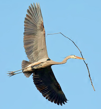 A Great Blue Heron flying with nesting material in Illinois, USA. There is a colony of about 20 heron nests in trees nearby.